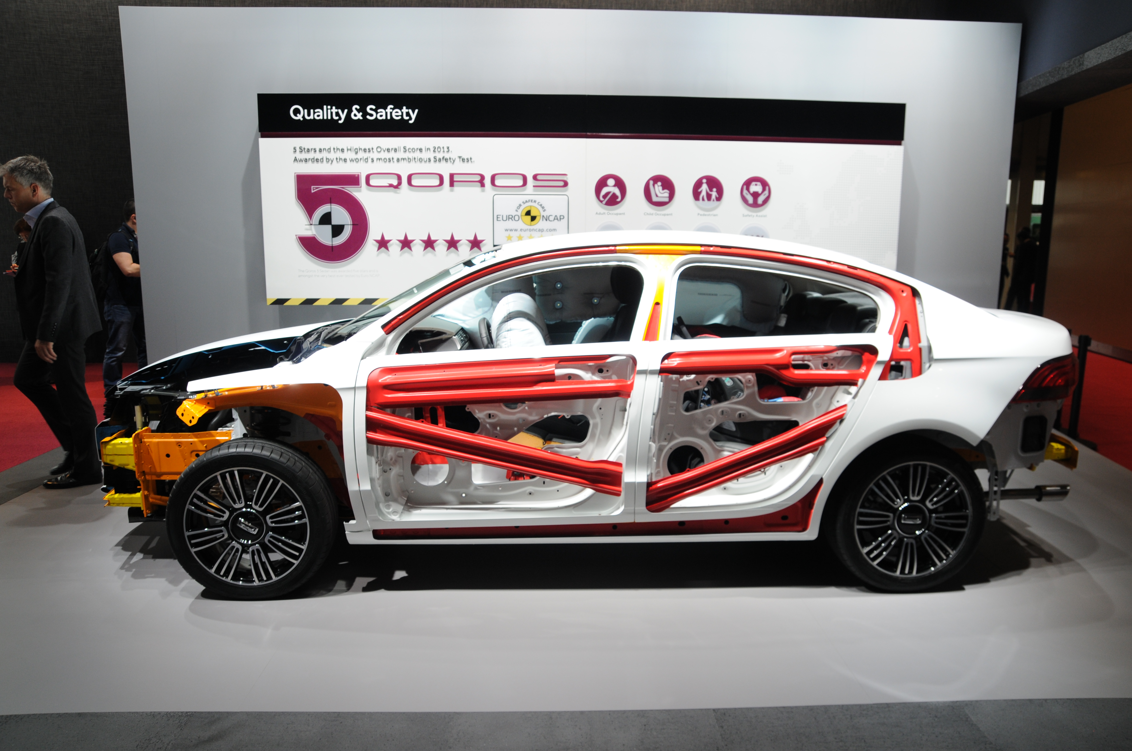 Geneva Motor Show 2014 (photo taken on the first press day)